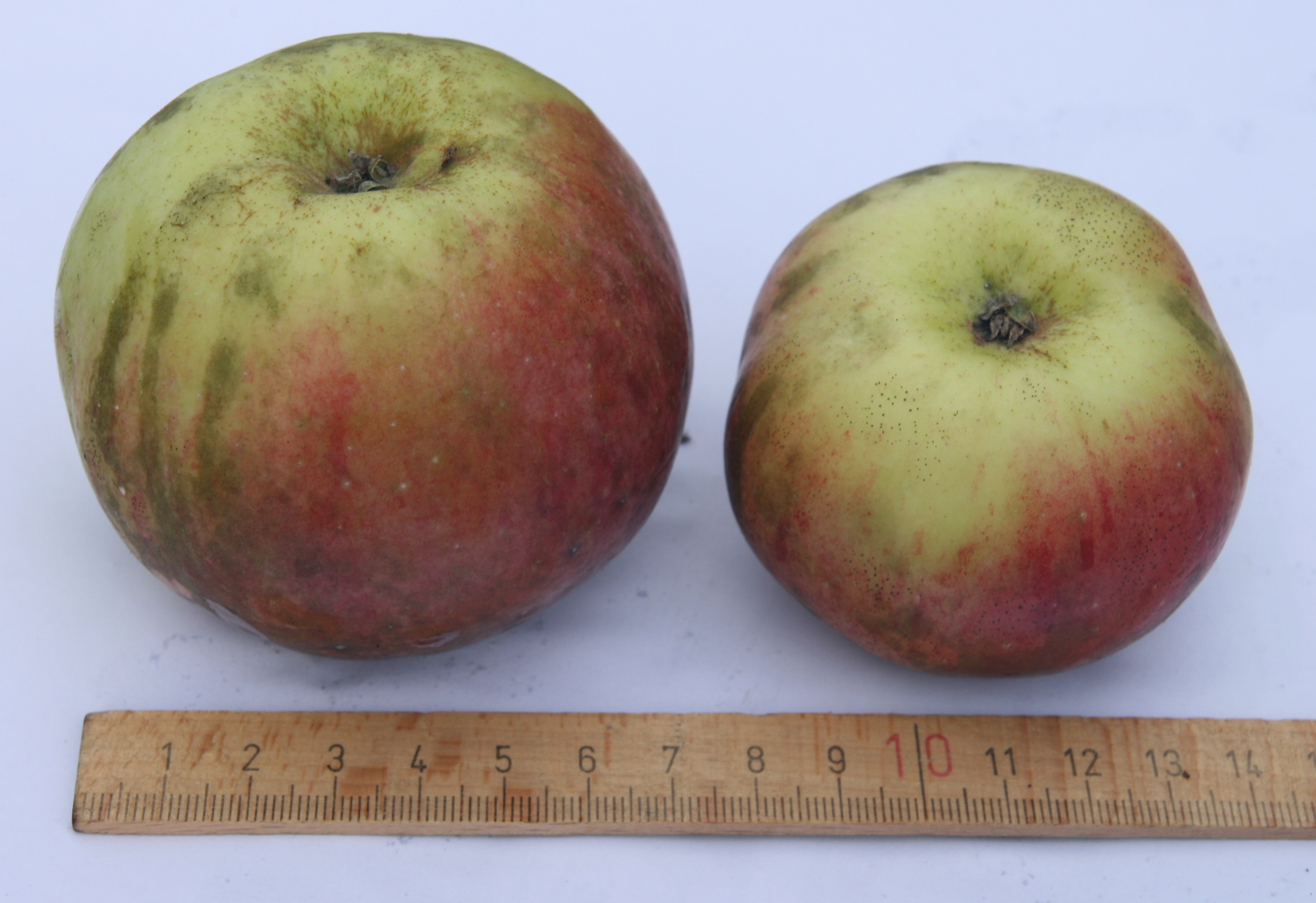 Fruits of the apple variety Ontario